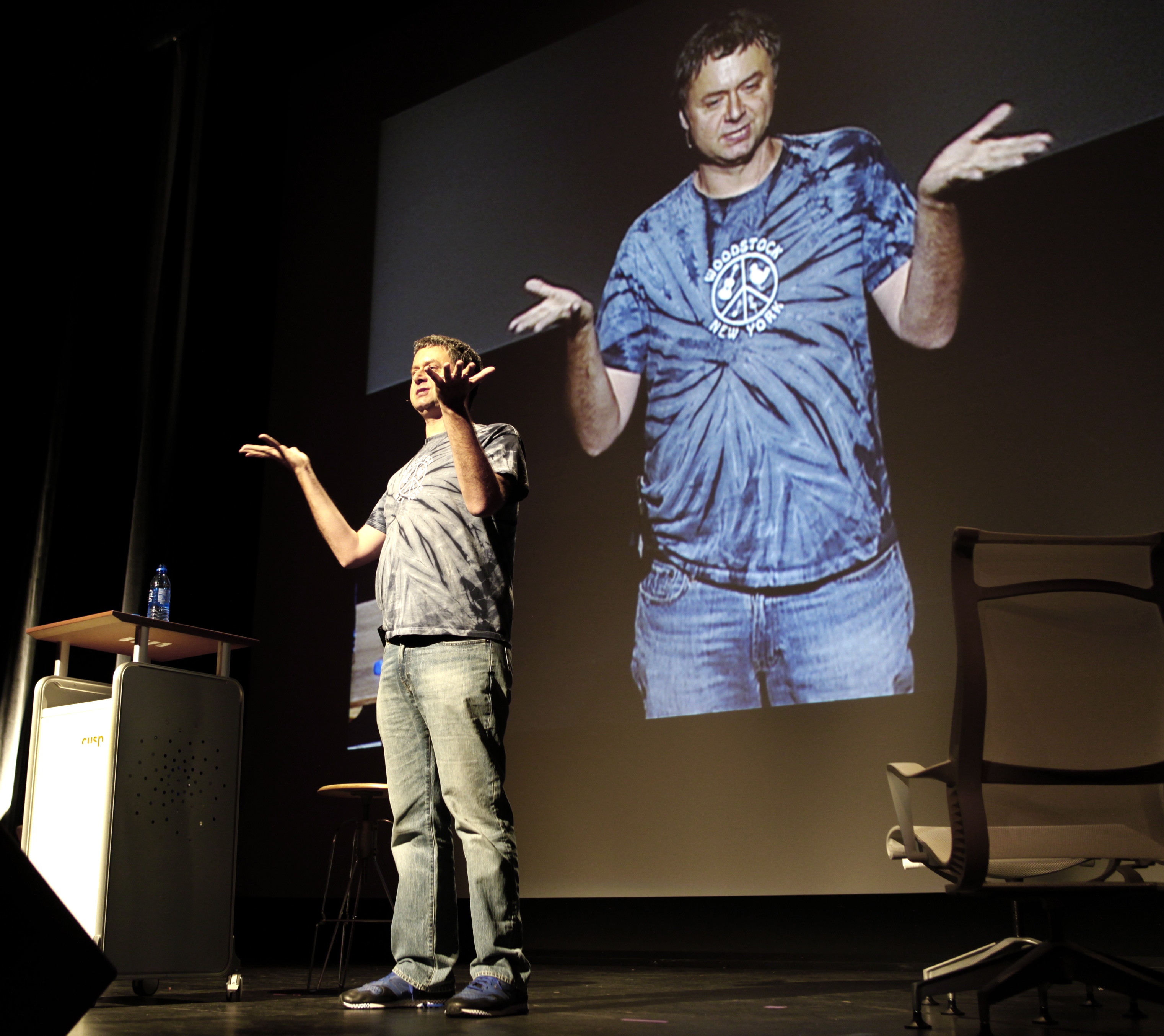 Paul Hoffman presenting at Cusp Conference 2009